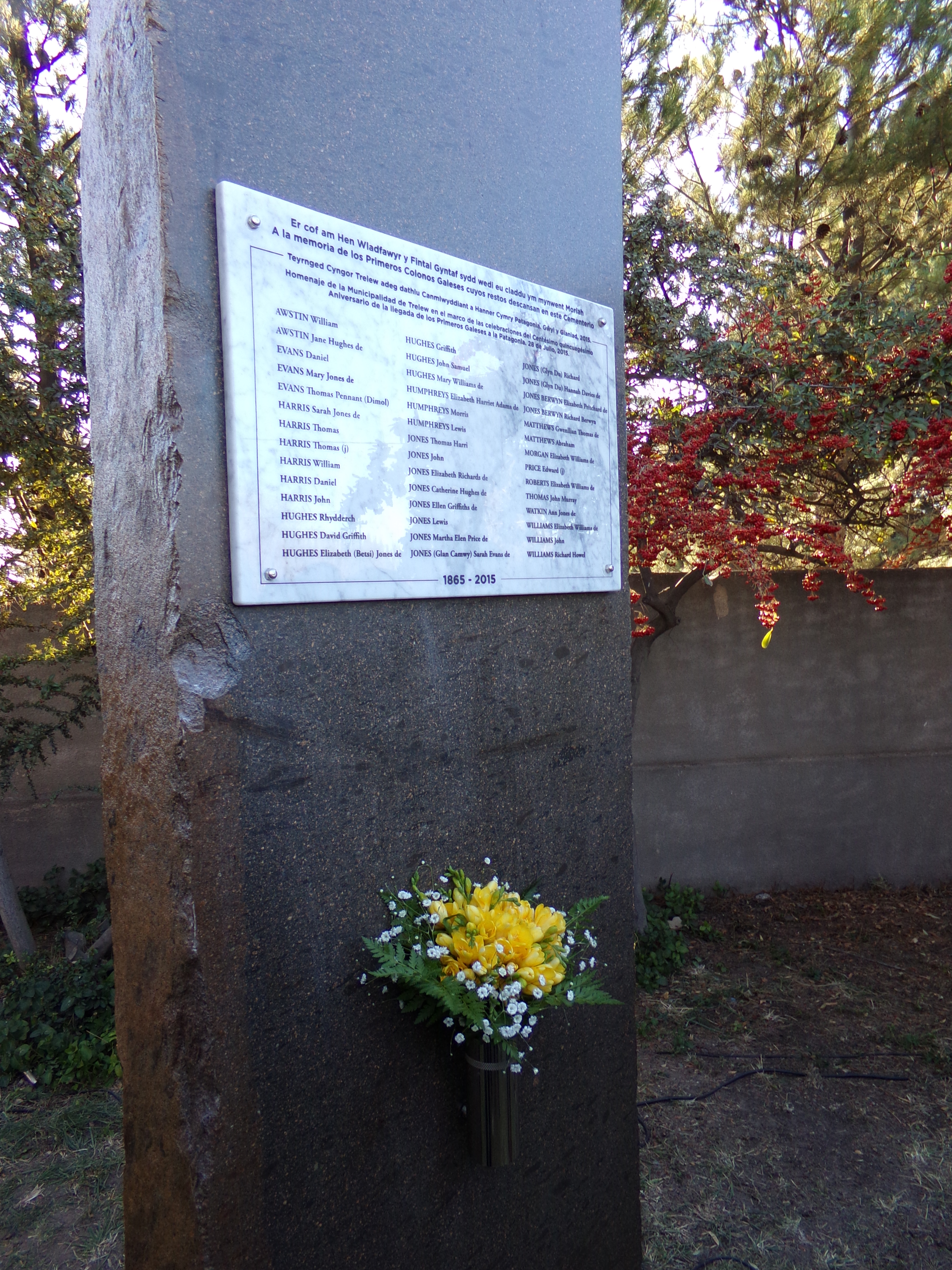 Act of July 28 at Moriah Chapel in Trelew. Wreaths were placed on the grave of Lewis Jones.